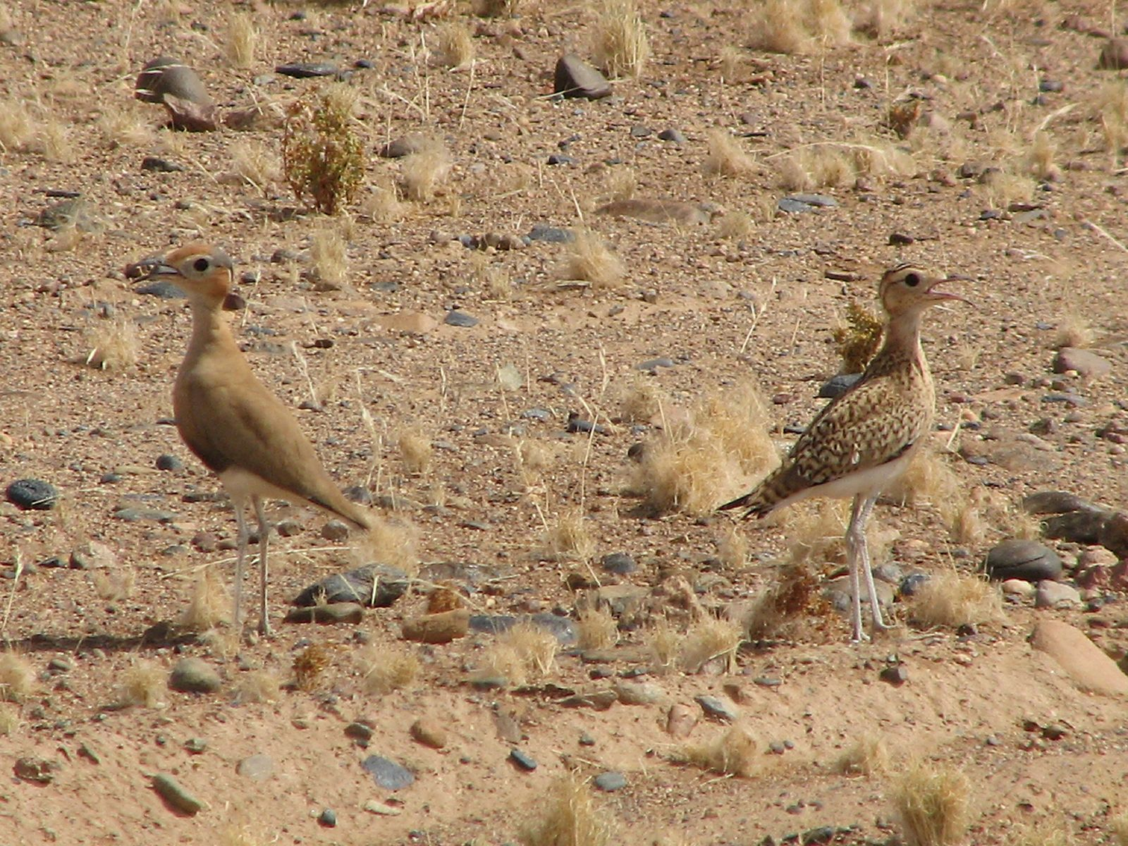 Burchell's Courser (Cursorius rufus) at Sossusvlei, Namib-Naukluft National Park, in the Namib Desert, Namibia.